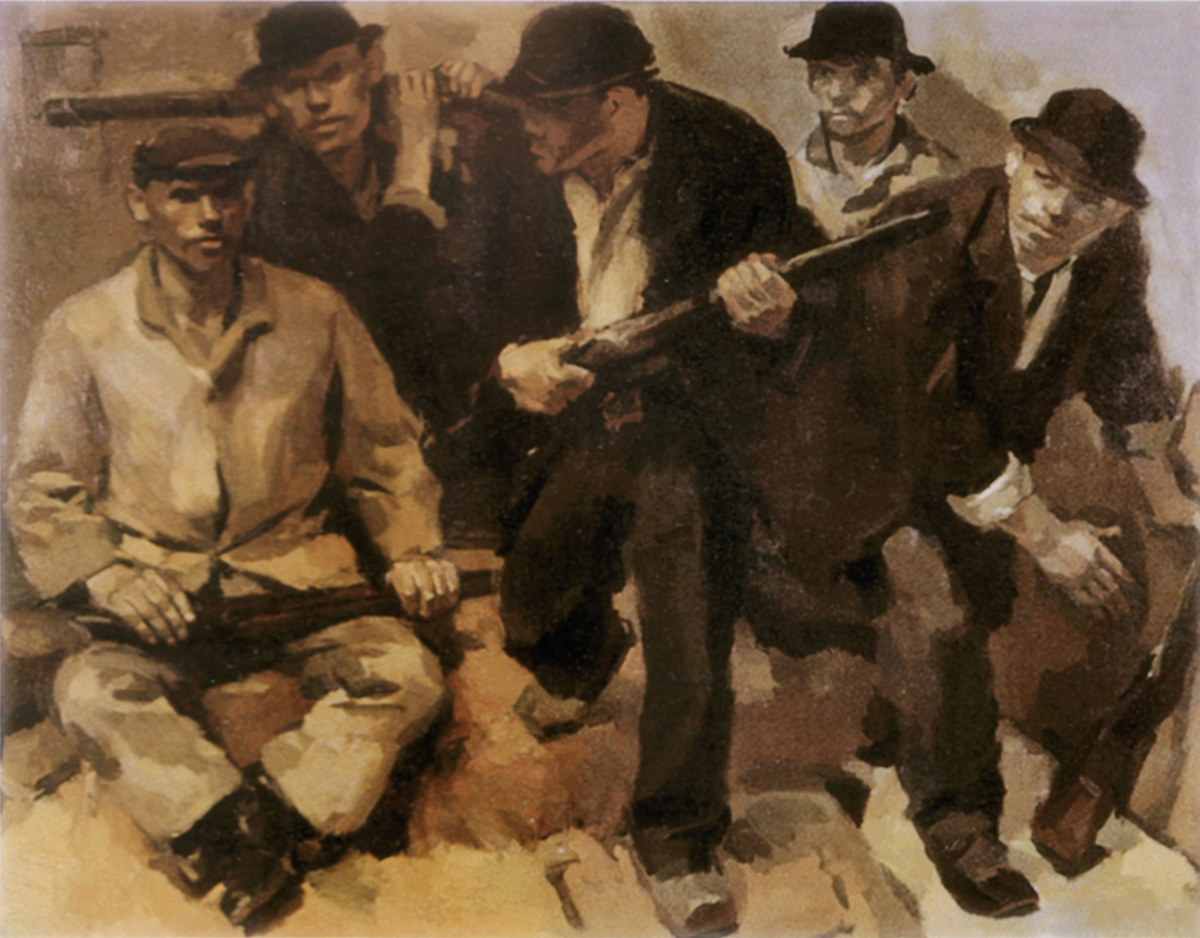 "The Revolution", oil on canvas, height 120.5 cm (47.4 in), width 156.5 cm (61.6 in)